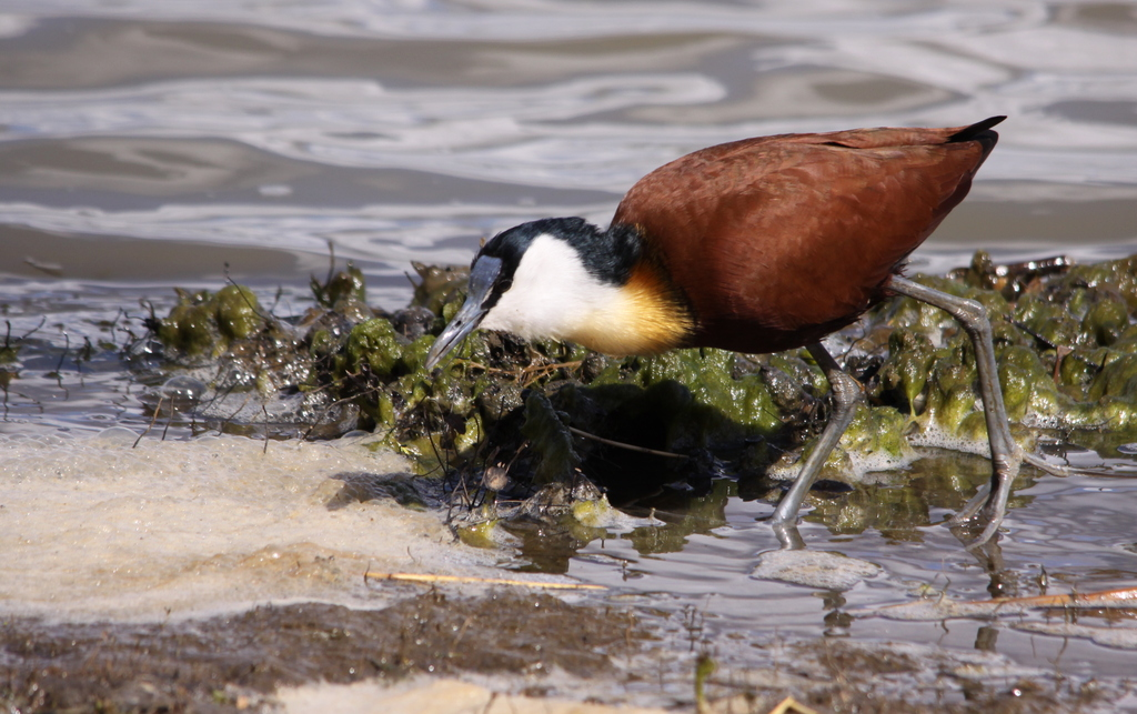 African Jacana, Actophilornis africana